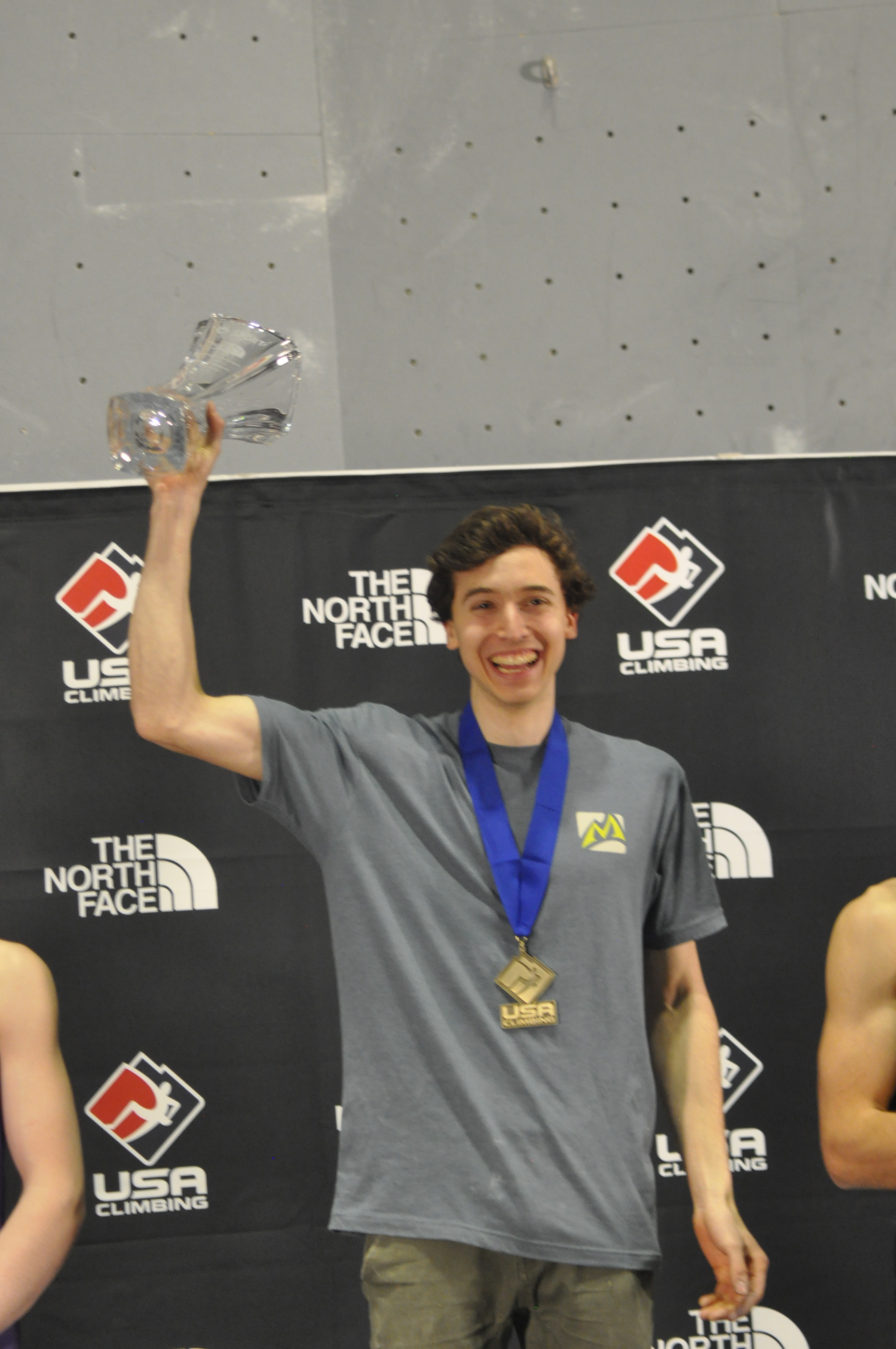 2019 Sport & Speed Open National Championships held on March 8-9, 2019 in Sportrock climbing gym in Alexandria, Virginia. Jesse Grupper during award ceremony.